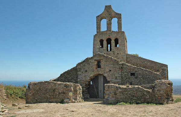 Santa Helena de Rodes church. Port de la Selva, Catalonia, Spain